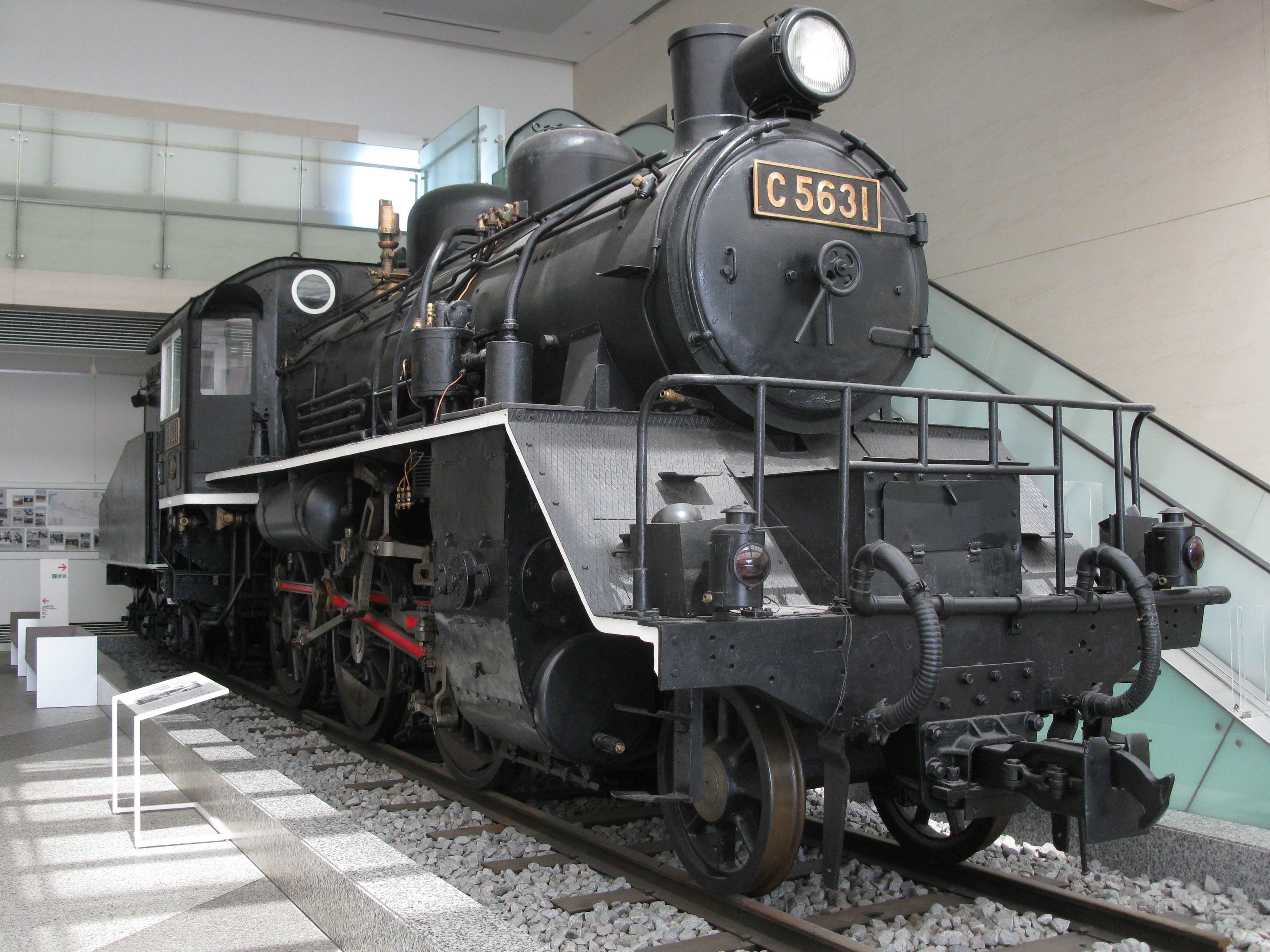 JNR Class C56 steam locomotive number C56 31 preserved at the Yūshūkan museum in Tokyo